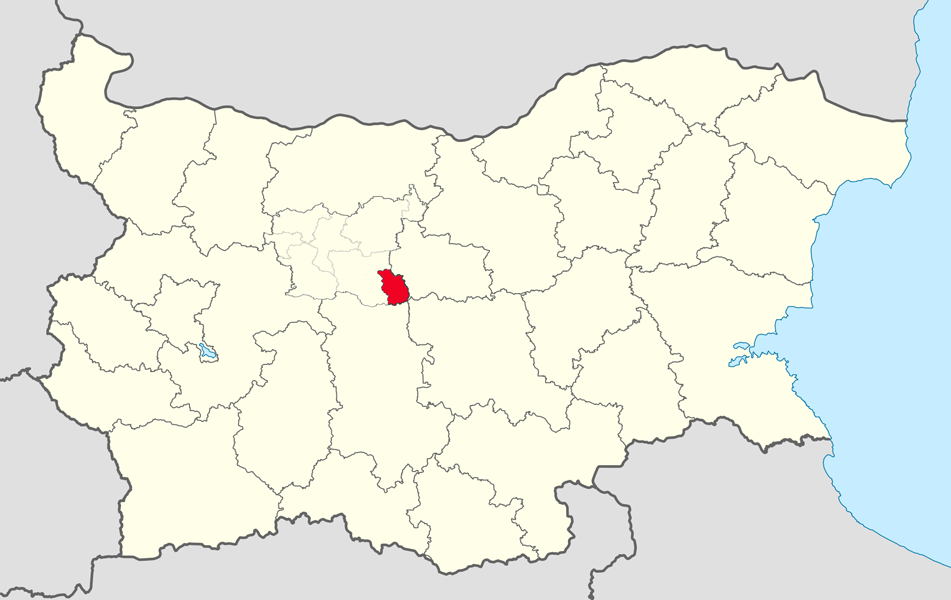 Location map of Apriltsi Municipality within Bulgaria and Lovech Province. Equirectangular projection, N/S stretching 130 %. Geographic limits of the map: N: 44.4° N S: 41.1° N W: 22.1° E E: 28.9° E